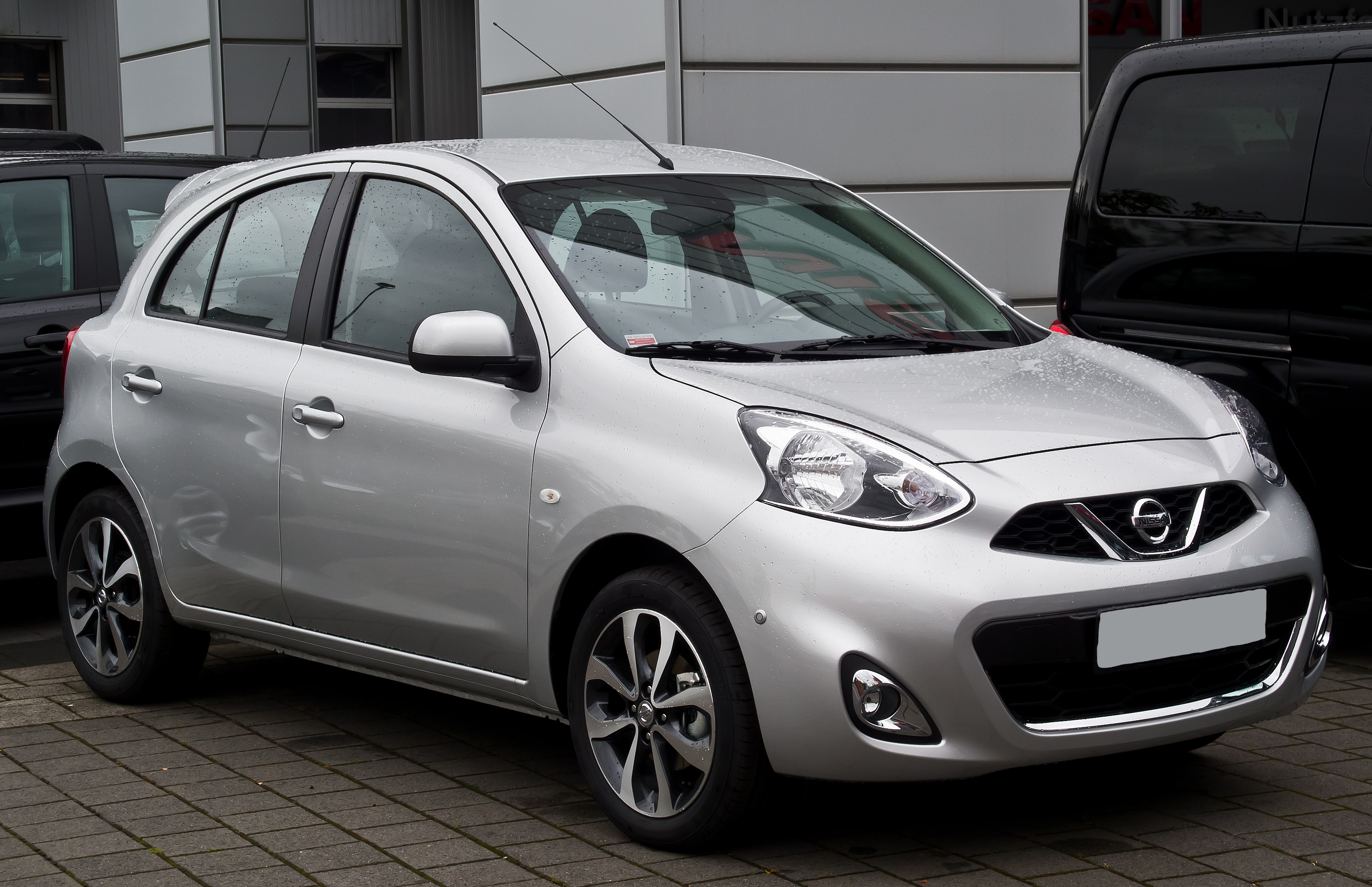 Nissan Micra (K13, Facelift)